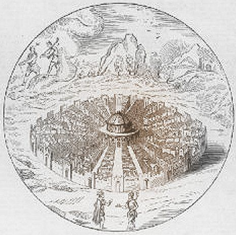 Le Monde Sage, Anton Francesco Doni